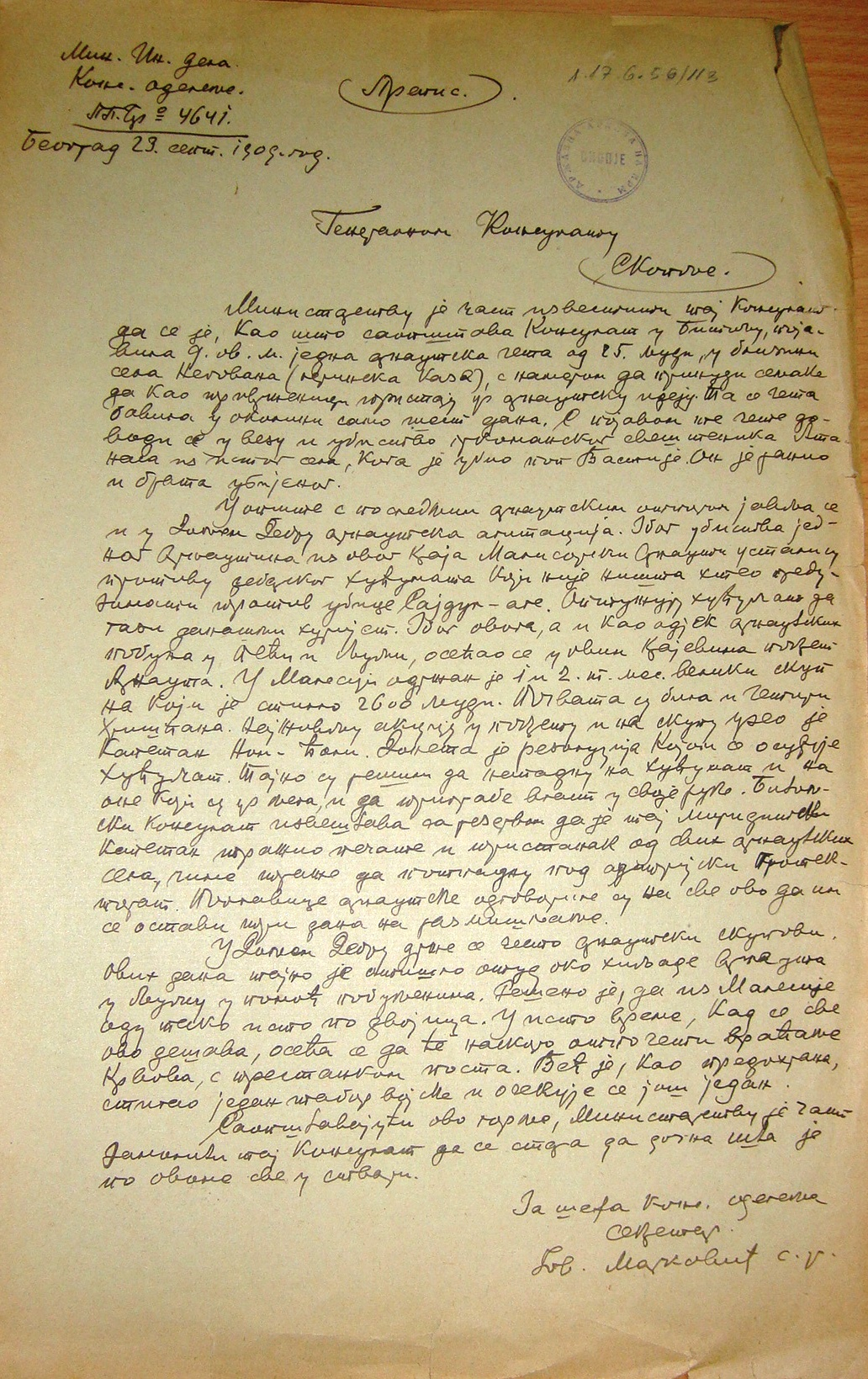 Report on the enlargement of Arnauts movement, and about the troops in the Bitola Vilayet (near the village Negovan, Lerin). (23 September 1909) This media file is produced by Wikipedian in Residence in Category:Wikipedian in Residence at DARM in 2016.